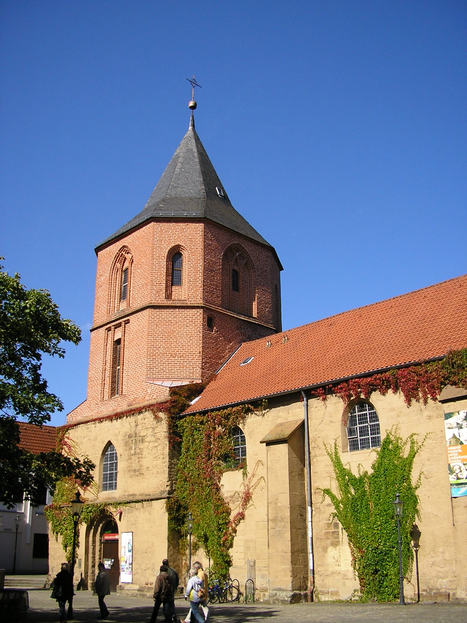 St. Johannis, Minden